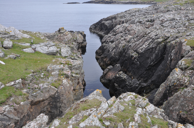 Cobbi Geo - West Isle, Out Skerries Looking North along Cobbi Geo on West Isle, Out Skerries, Shetland